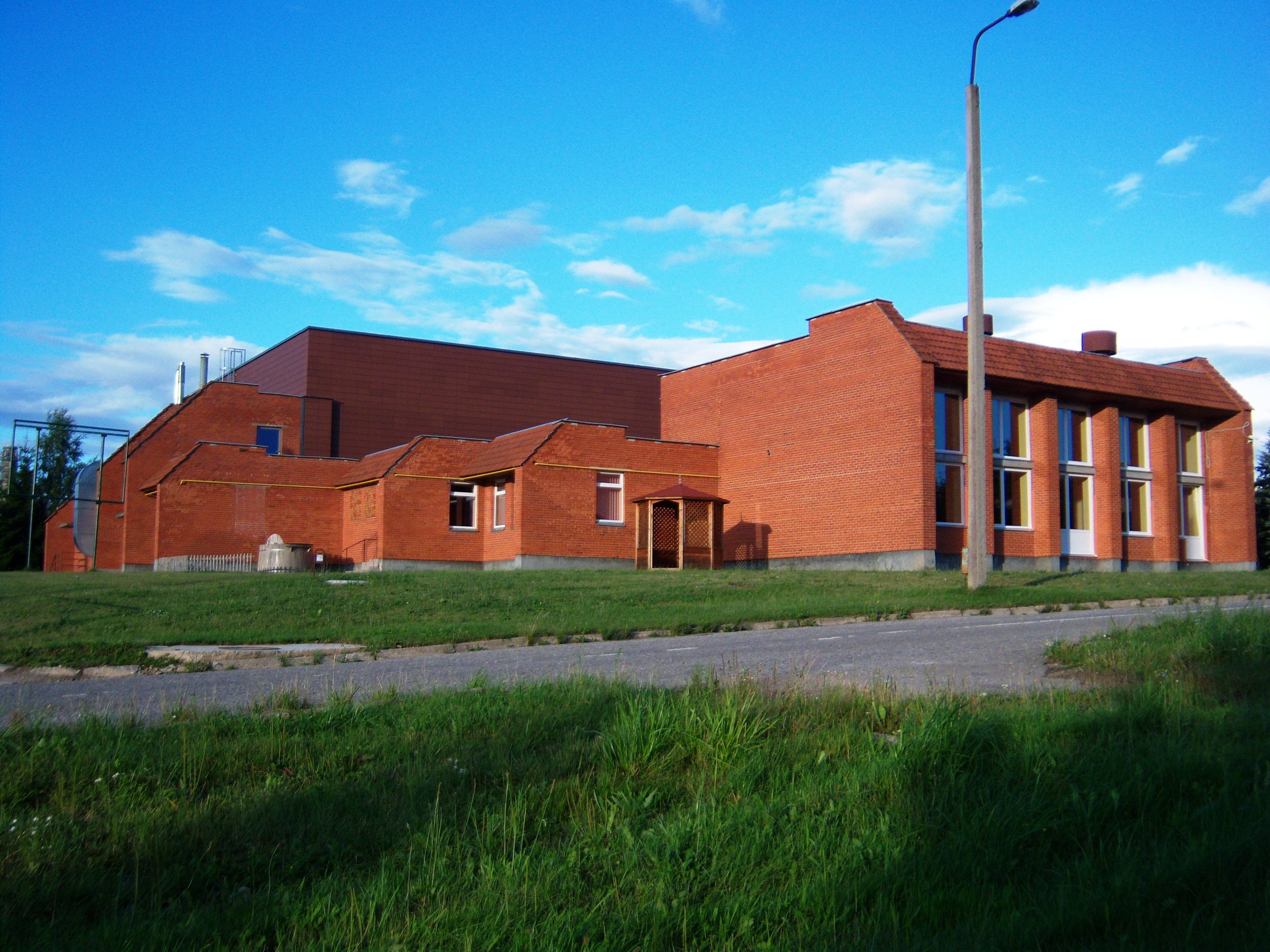 „Bangenis“, swimming pool, Anykščiai, Lithuania